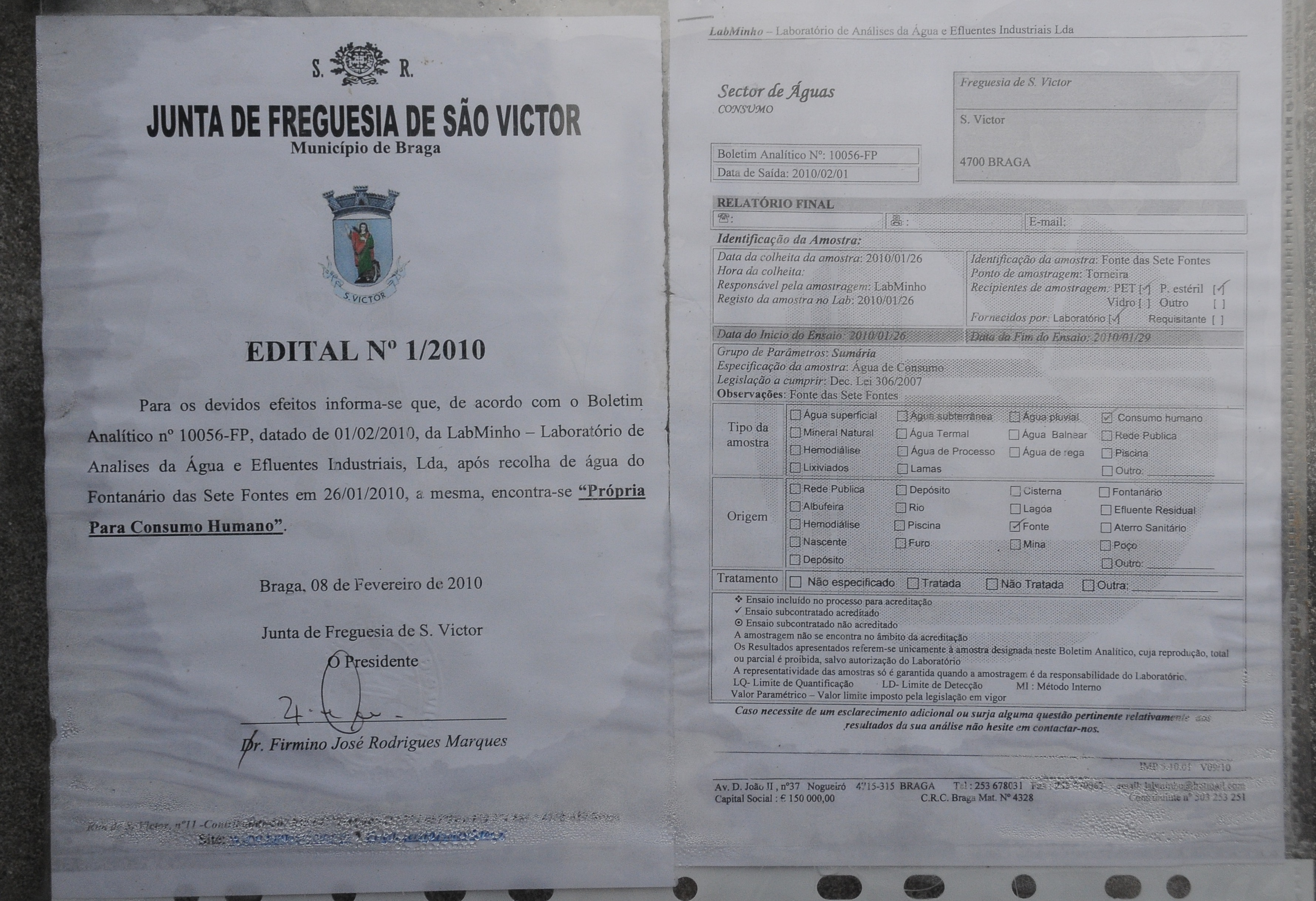 Water analysis in Sete Fontes, Braga, Portugal.